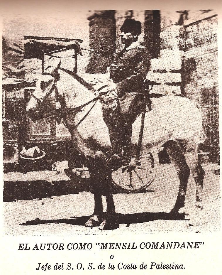 Photo of venezuelan soldier and adventurer Rafael de Nogales Méndez (1879-1936) on horseback in 1917,when he commanded the palestinian coast.